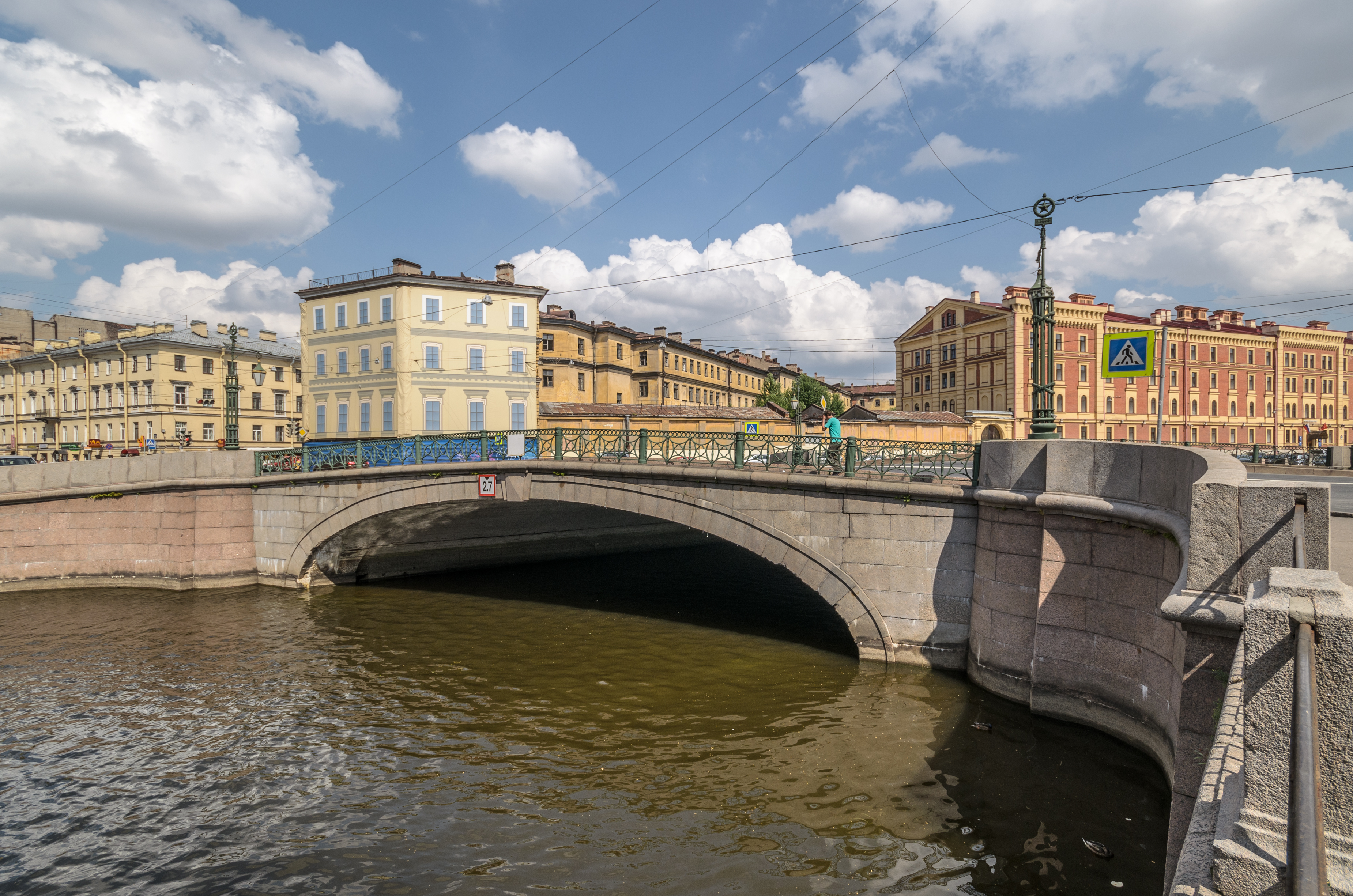 Mogilevsky Bridge in Saint Petersburg